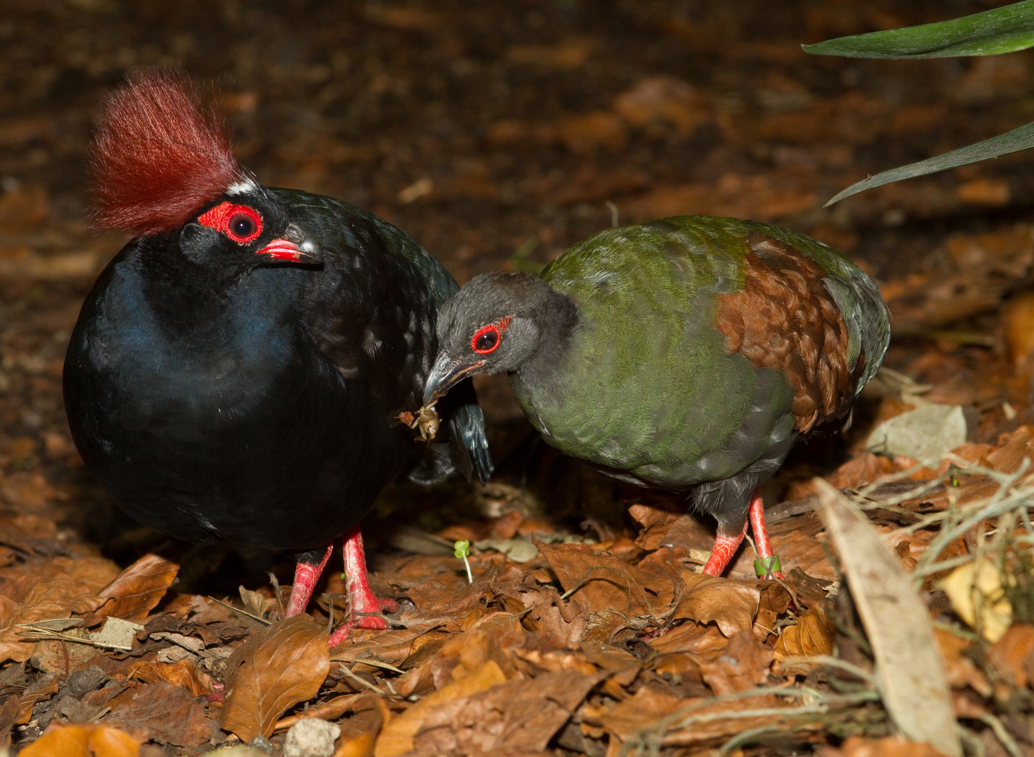 Crested Wood Partridges.